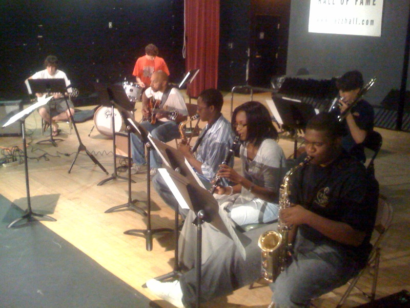 Members of the Alabama Jazz Hall of Fame (Free) Saturday Jazz Class working on the song, "Chega de Saudade," by Antonio Carlos Jobim. Ray Reach, instructor.